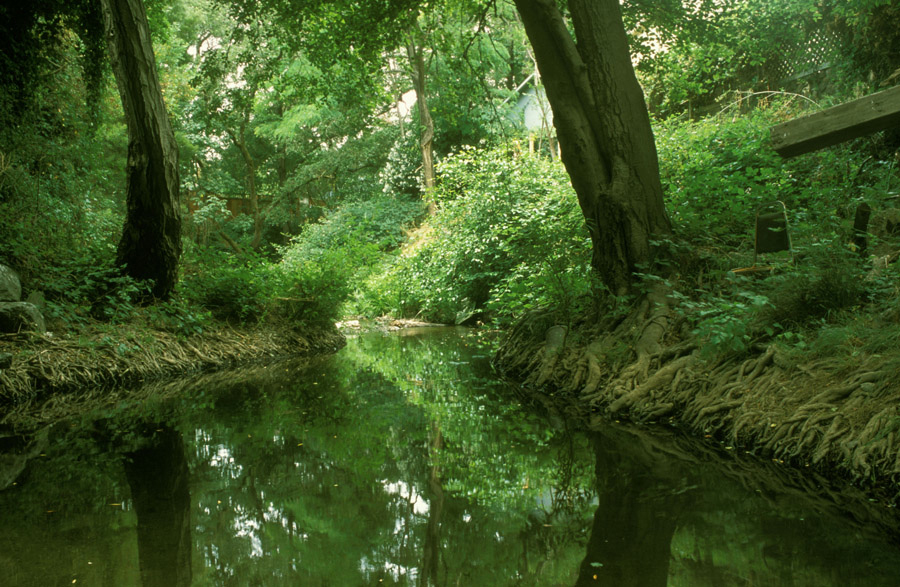 Massive alder roots on banks of San Anselmo Creek